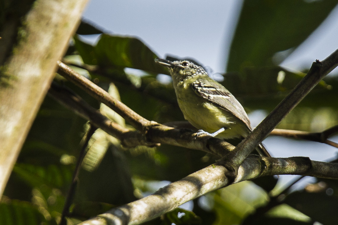 Yellow-breasted Antwren - South Ecuador_S4E1335